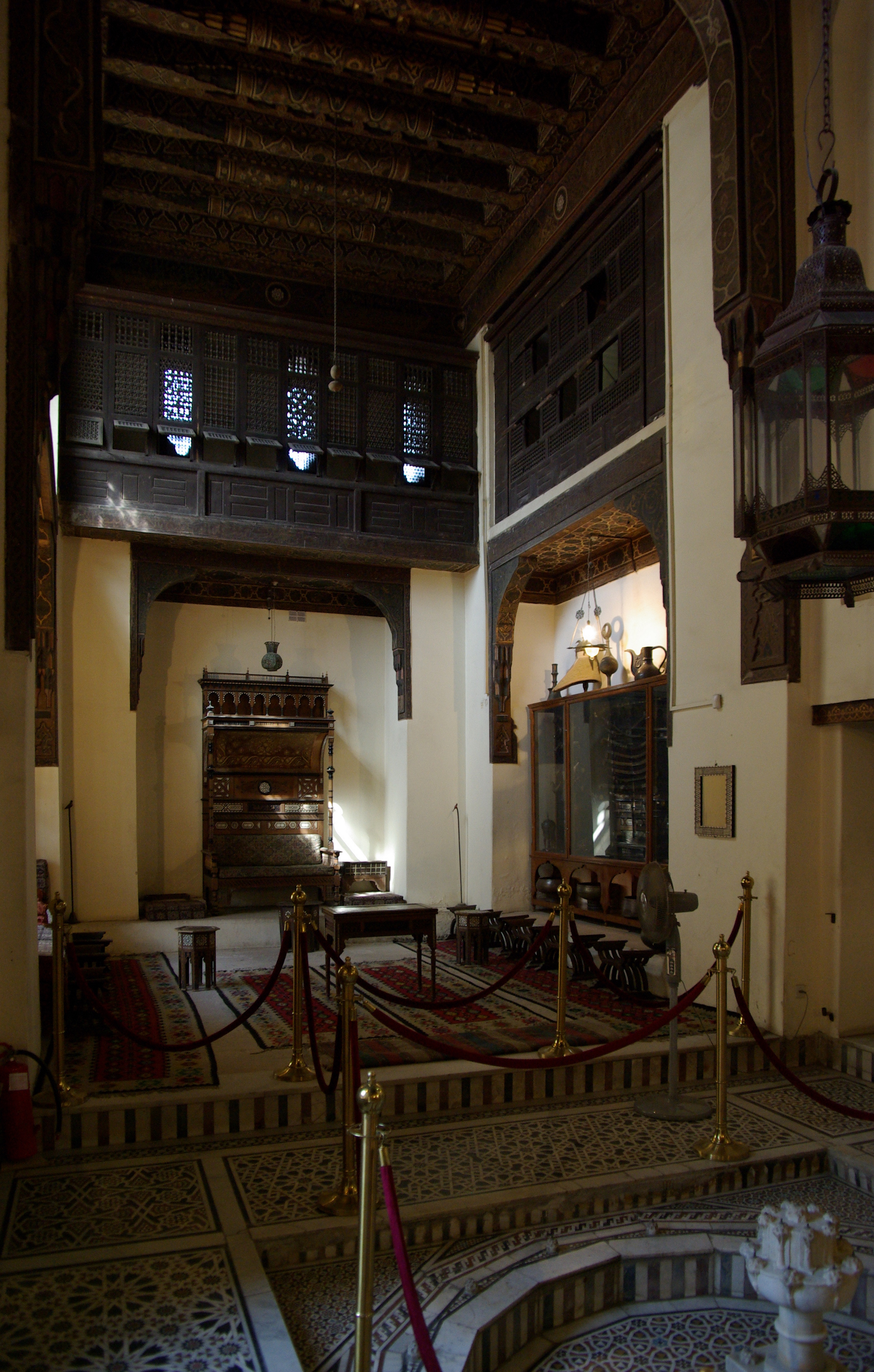 Cairo, Gayer Anderson Museum